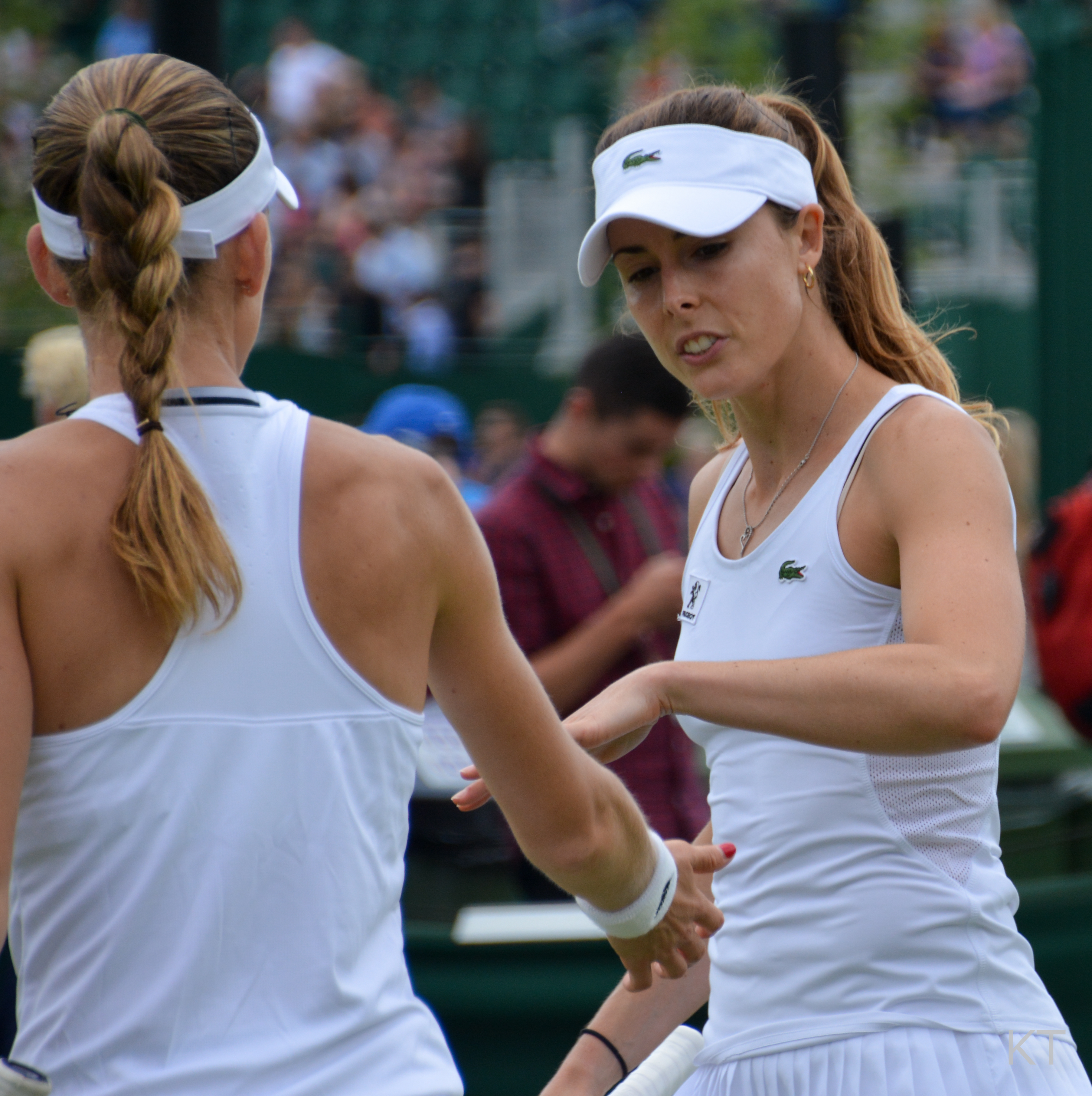 Middle Sunday of Wimbledon 2016.